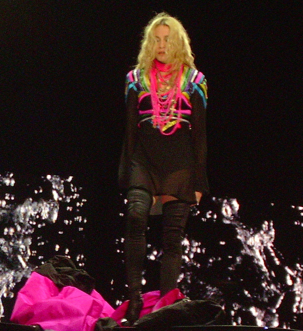 Му рicture taken in Wembley during the concert